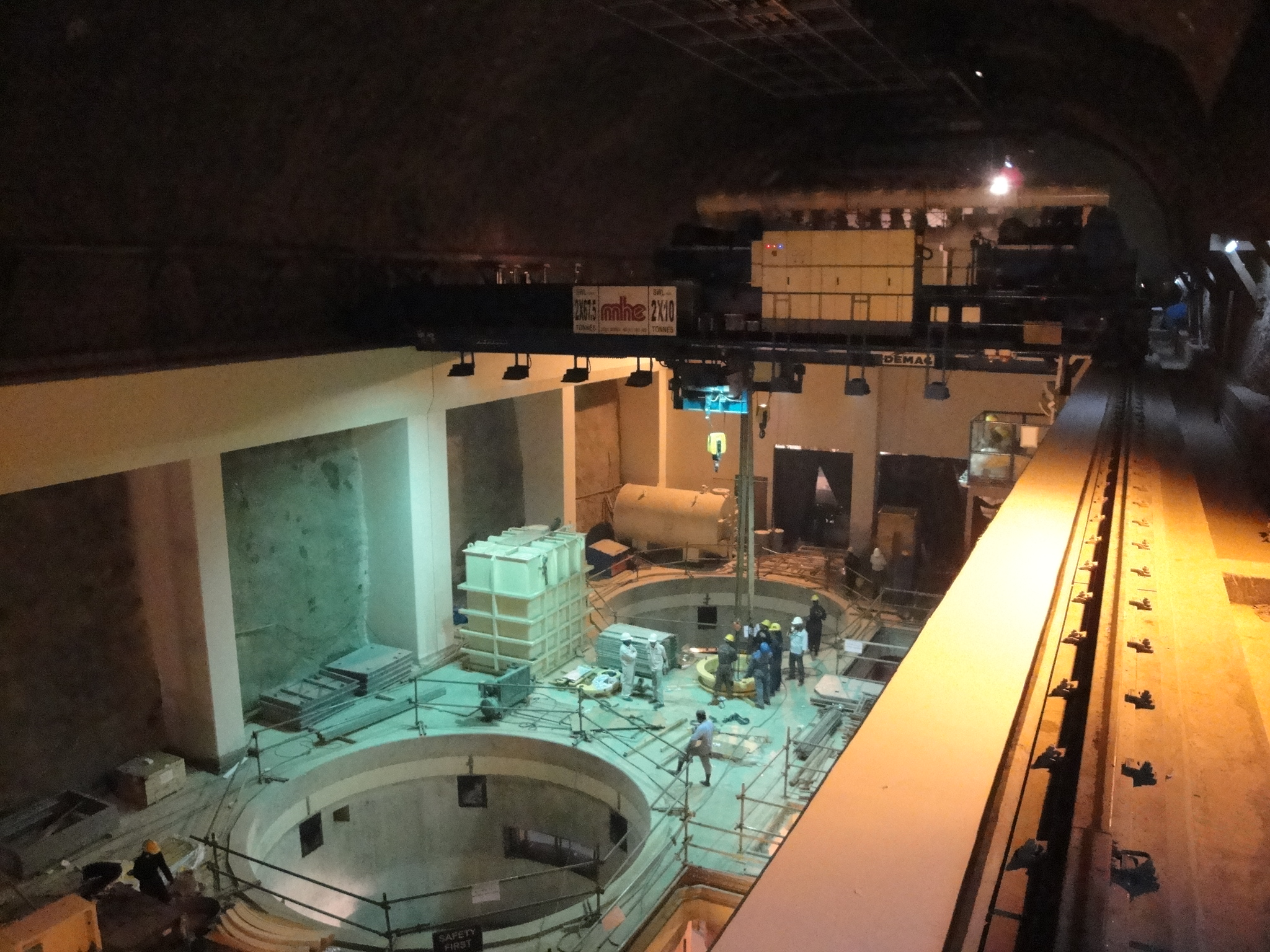 The Upper Kotmale Dam in Talawakele, Sri Lanka.